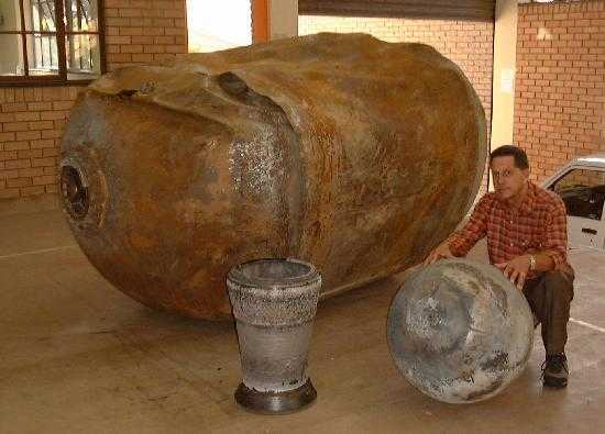 Another Delta 2 second stage reentered on 27 April 2000 over South Africa. In this incident, three objects were recovered along a path nearly 100 km long: the main stainless steel propellant tank, a titanium pressurant tank, and a portion of the main engine nozzle assembly.